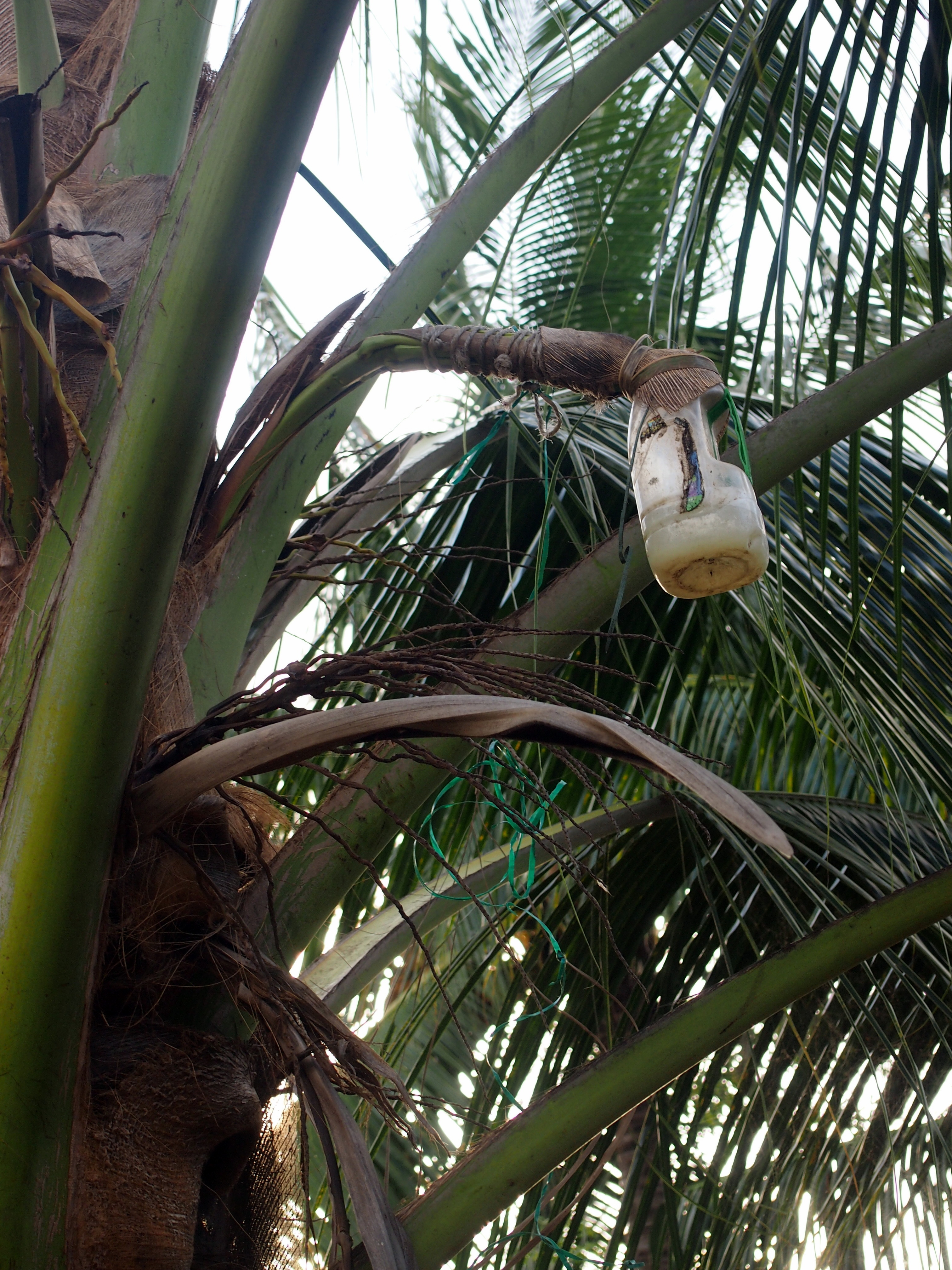 Bottle on palm for getting palm wine in Mtangani, Kenya near Malindi town